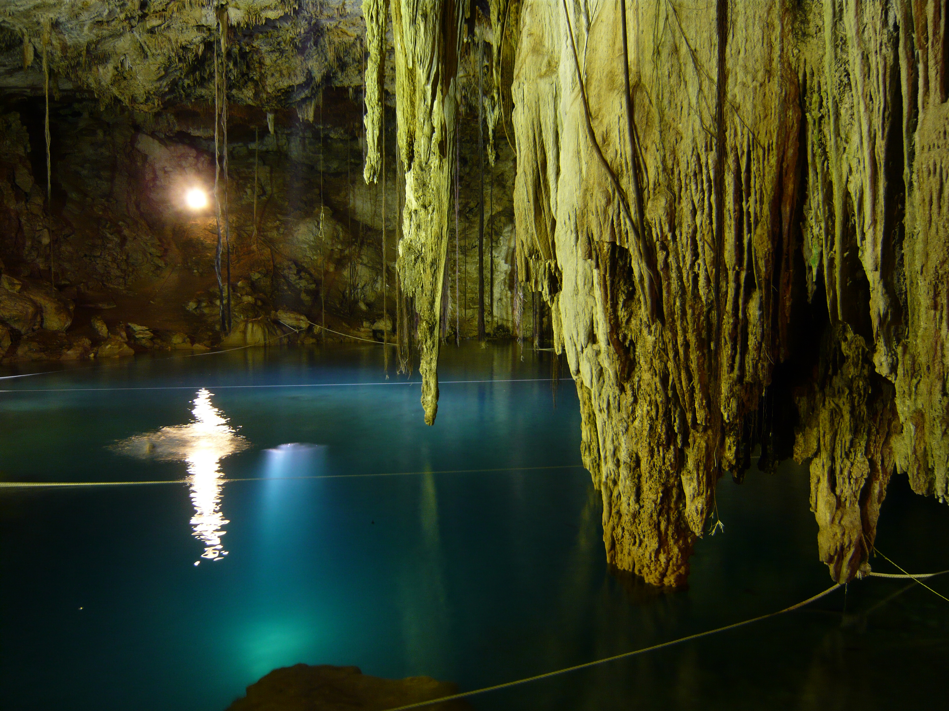 Xkeken Cenote at Dzitnup near Valladolid, Yucatán, Mexico